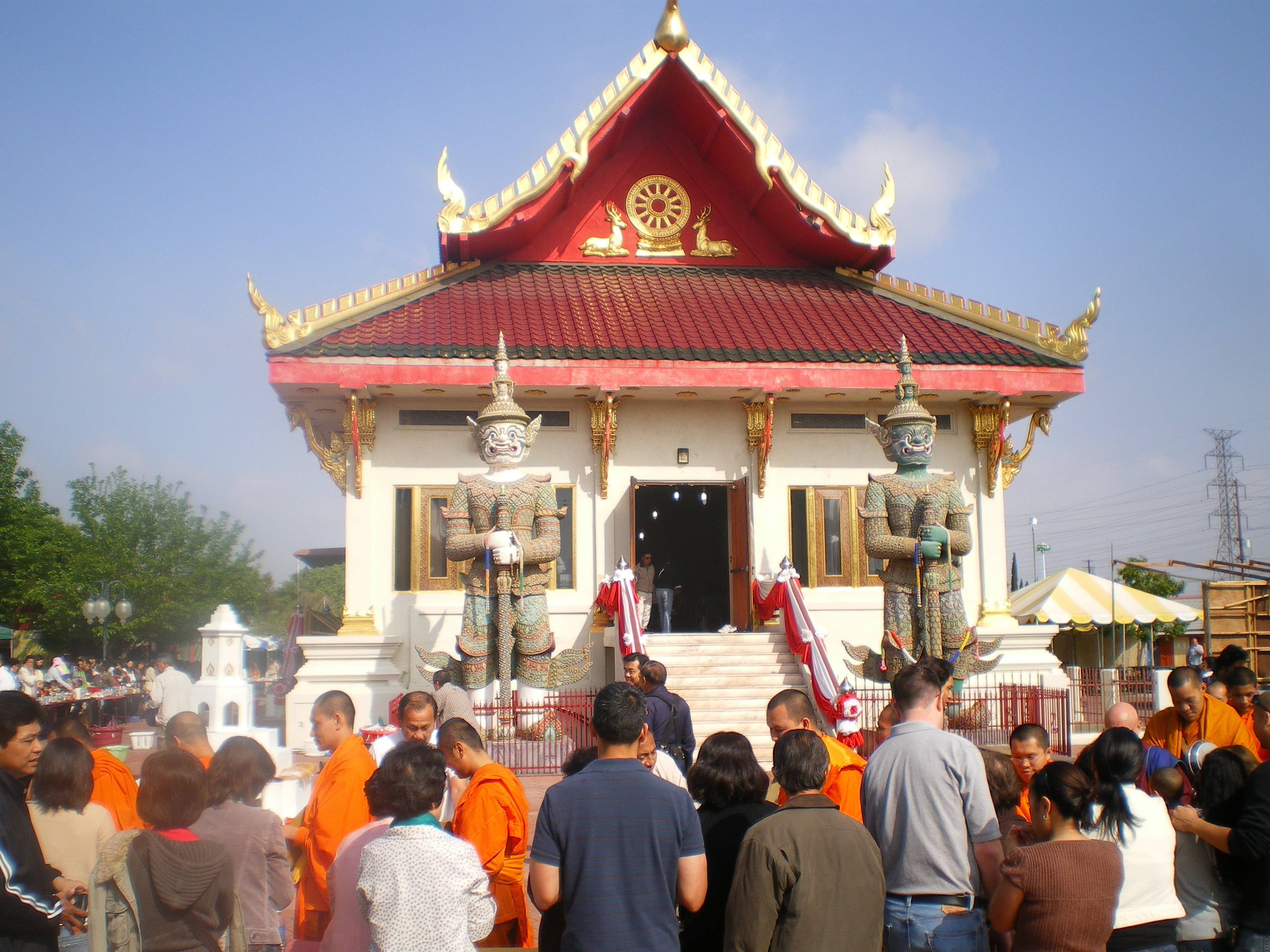 Songkran at Wat Thai in Los Angeles, 8225 Coldwater Canyon, No. Hollywood, Los Angeles, California, April 2008